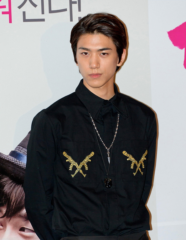 Sung Joon at Shut Up Flower Boy Band (tvN, 2012) premiere, on January 25, 2012